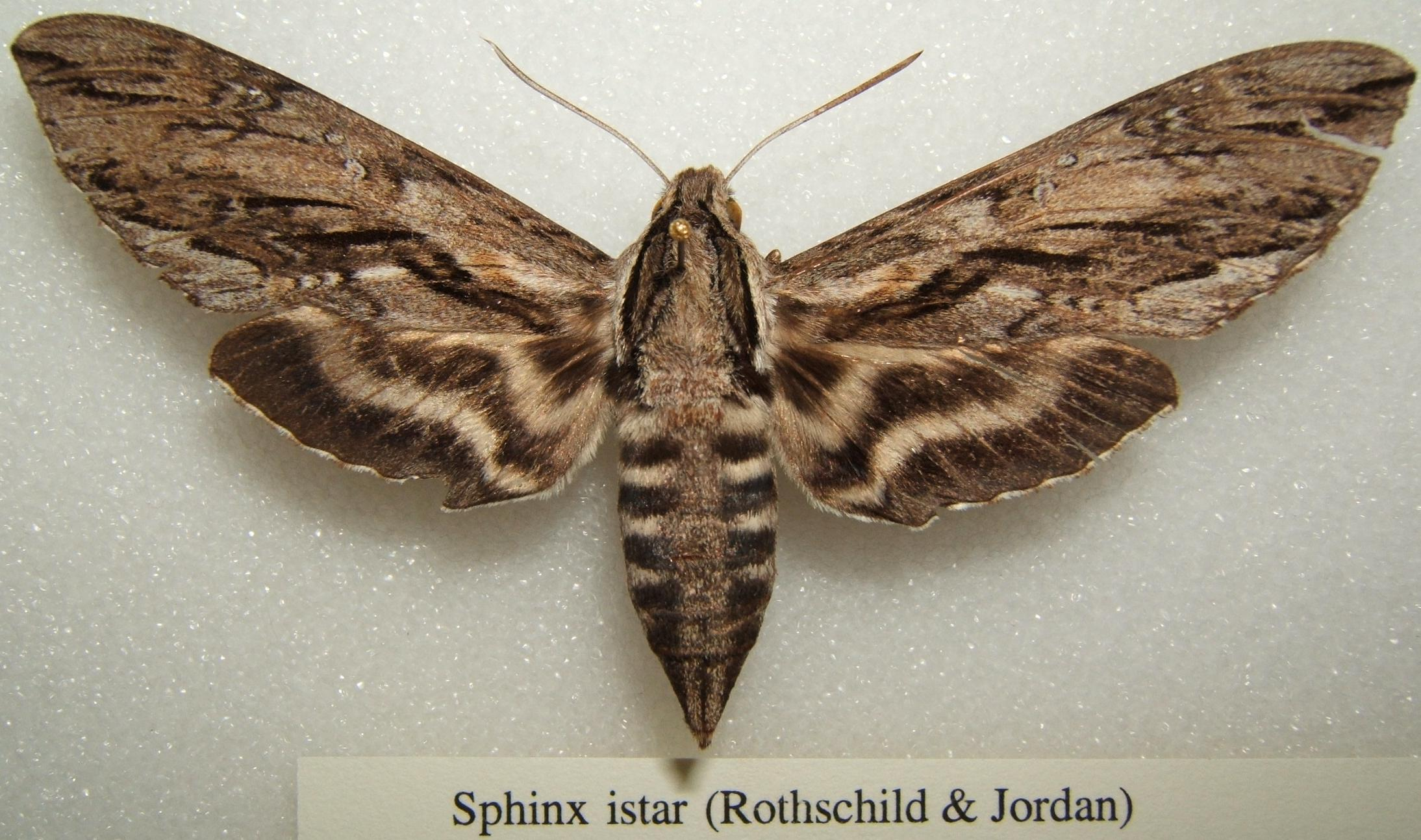 Sphinx istar adult from the Texas A&M University Insect Collection